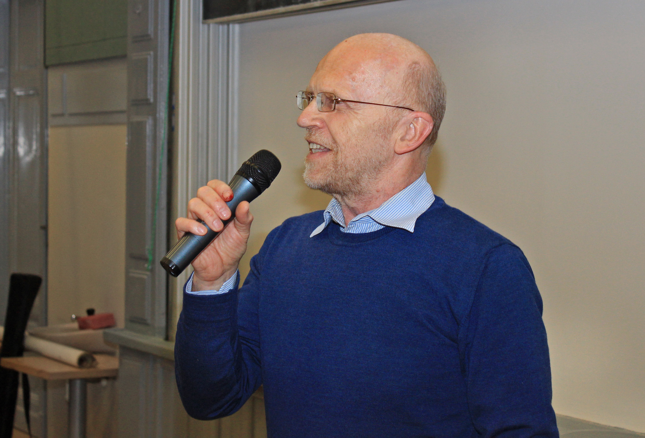 Czech Wikiconference 2015 in Prague